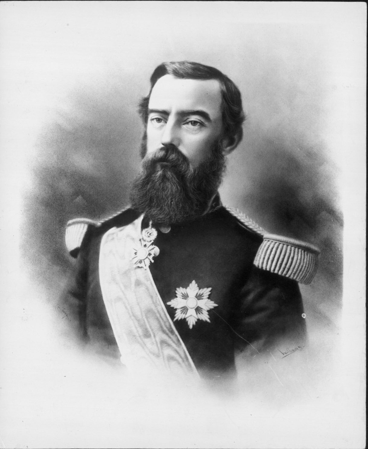 John Owen Dominis (March 10, 1832 – August 27, 1891) was an American-born statesman. He became Prince Consort of the Kingdom of Hawaiʻi upon his marriage to the last reigning monarch, Queen Liliʻuokalani. Probably part of the works of retouched photographs made by James J. Williams.